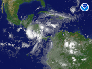 Tropical Storm Alma